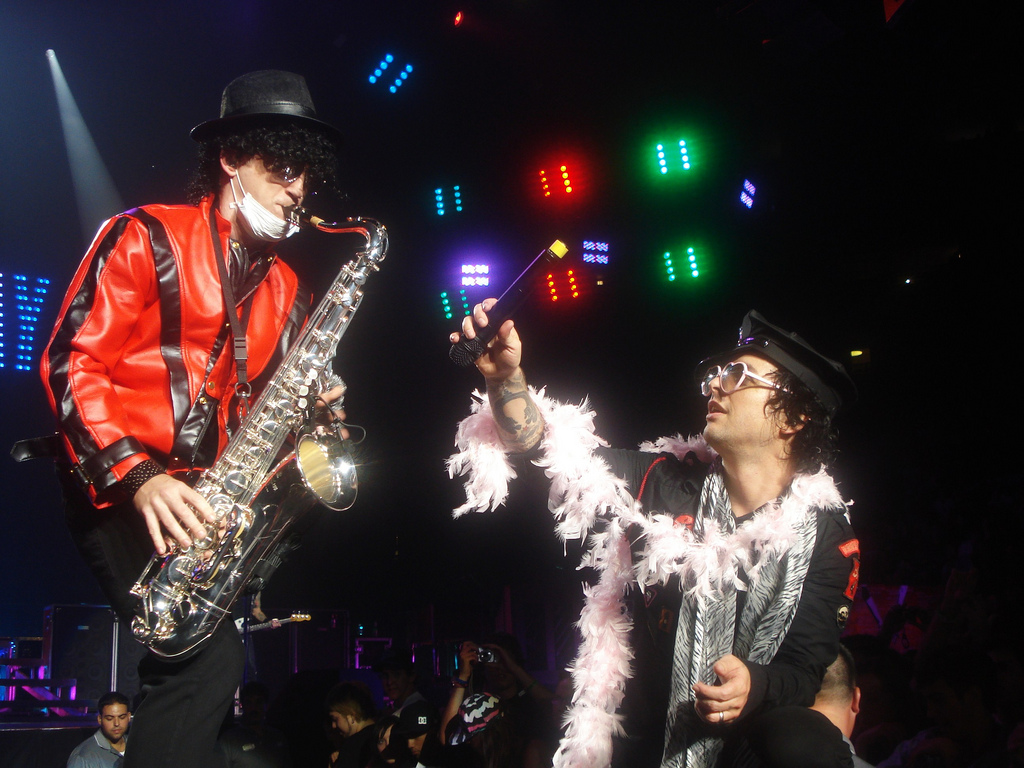 Green Day's Billie Joe Armstrong and Jason Freese performing on July 28, 2009.